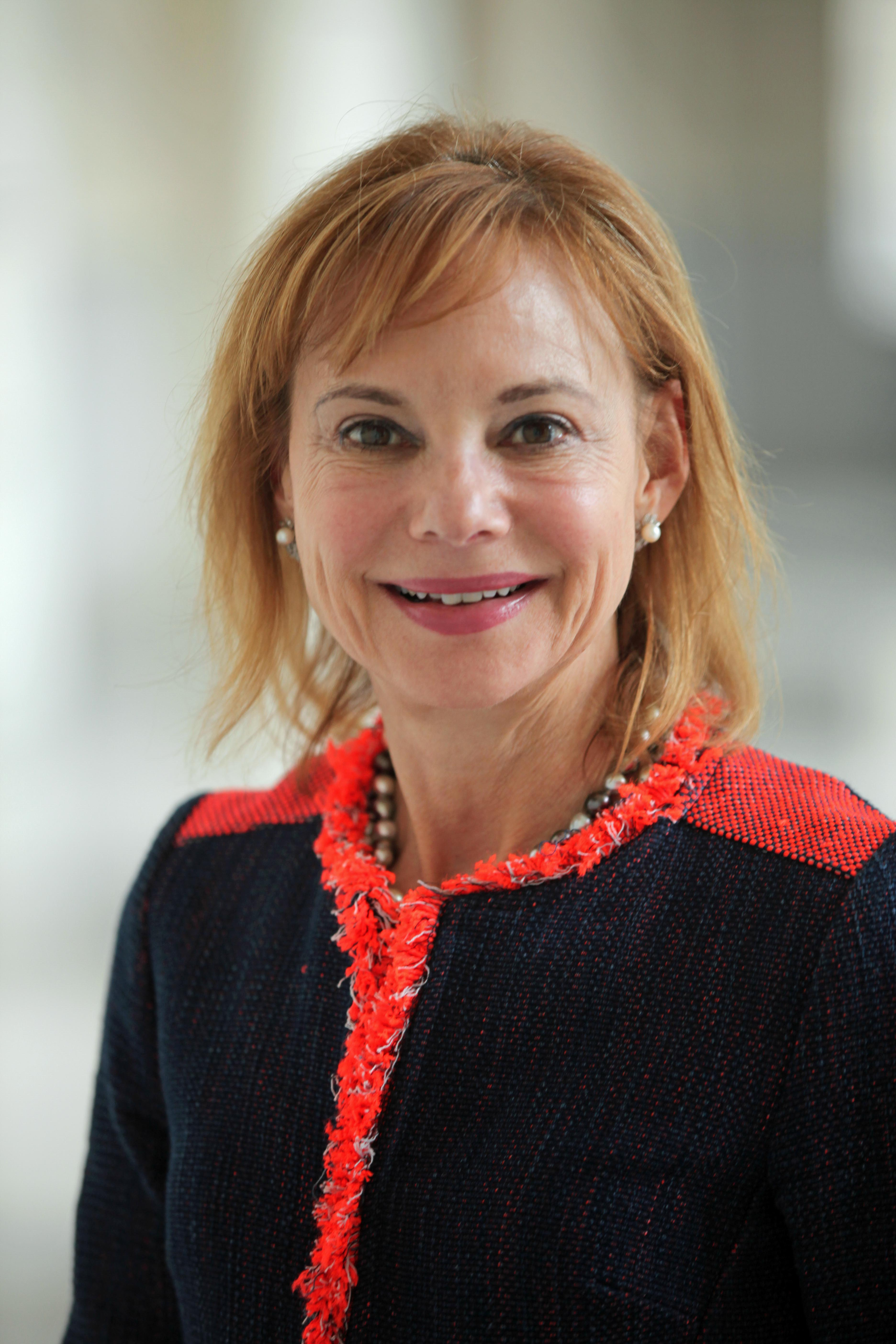 Sherri W. Goodman (2016)